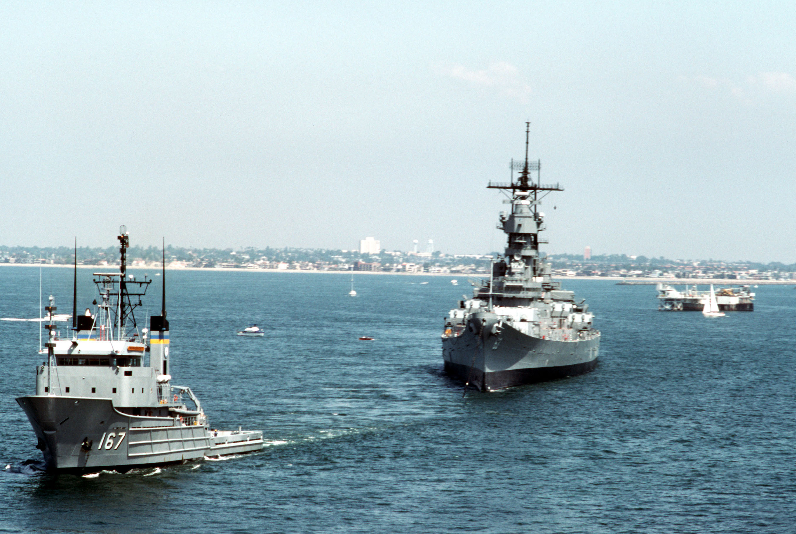 The recently decommissioned battleship USS MISSOURI (BB 63) is towed from the harbor by the Military Sealift Command fleet ocean tug USNS NARRAGANSETT (T-ATF 167), on its journey to the Naval Inactive Ship Maintenance Facility, Puget Sound Naval Shipyard, Bremerton, Washington. Location: NAVAL STATION, LONG BEACH, CALIFORNIA (CA) UNITED STATES OF AMERICA (USA)